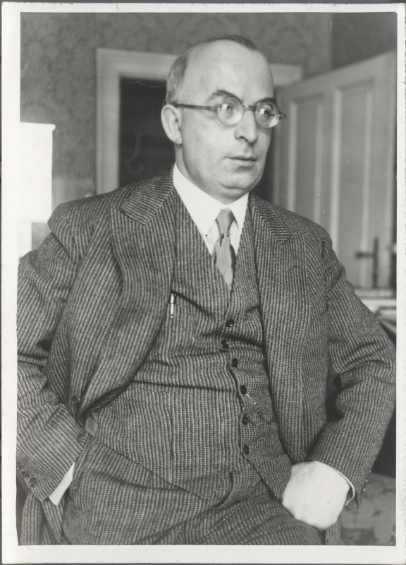 Arnold Zweig (1887–1968), German writer.